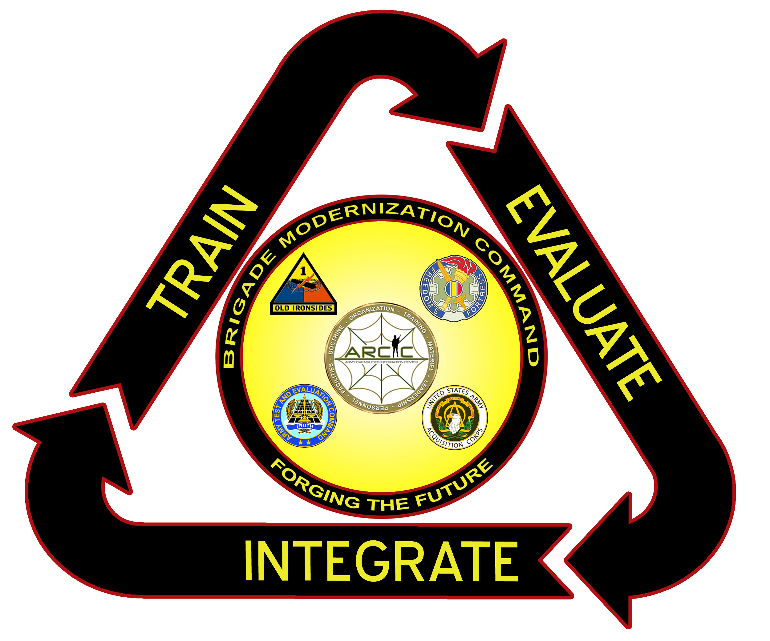 Brigade Modernization Command Logo. (Design By Wes Elliott, U.S. Army)